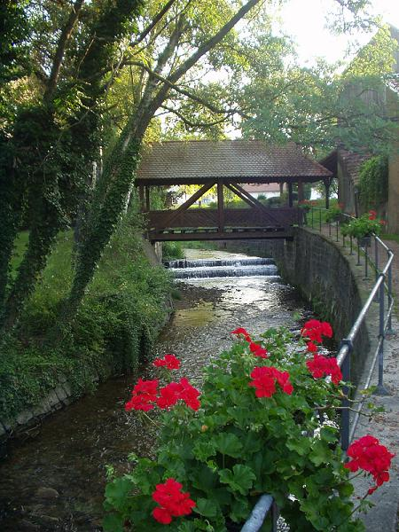 The Kander River as it flows through the town of Kandern in Baden-Württemberg, Germany. The river is shown here as it flows behind Kandern's Rathaus.